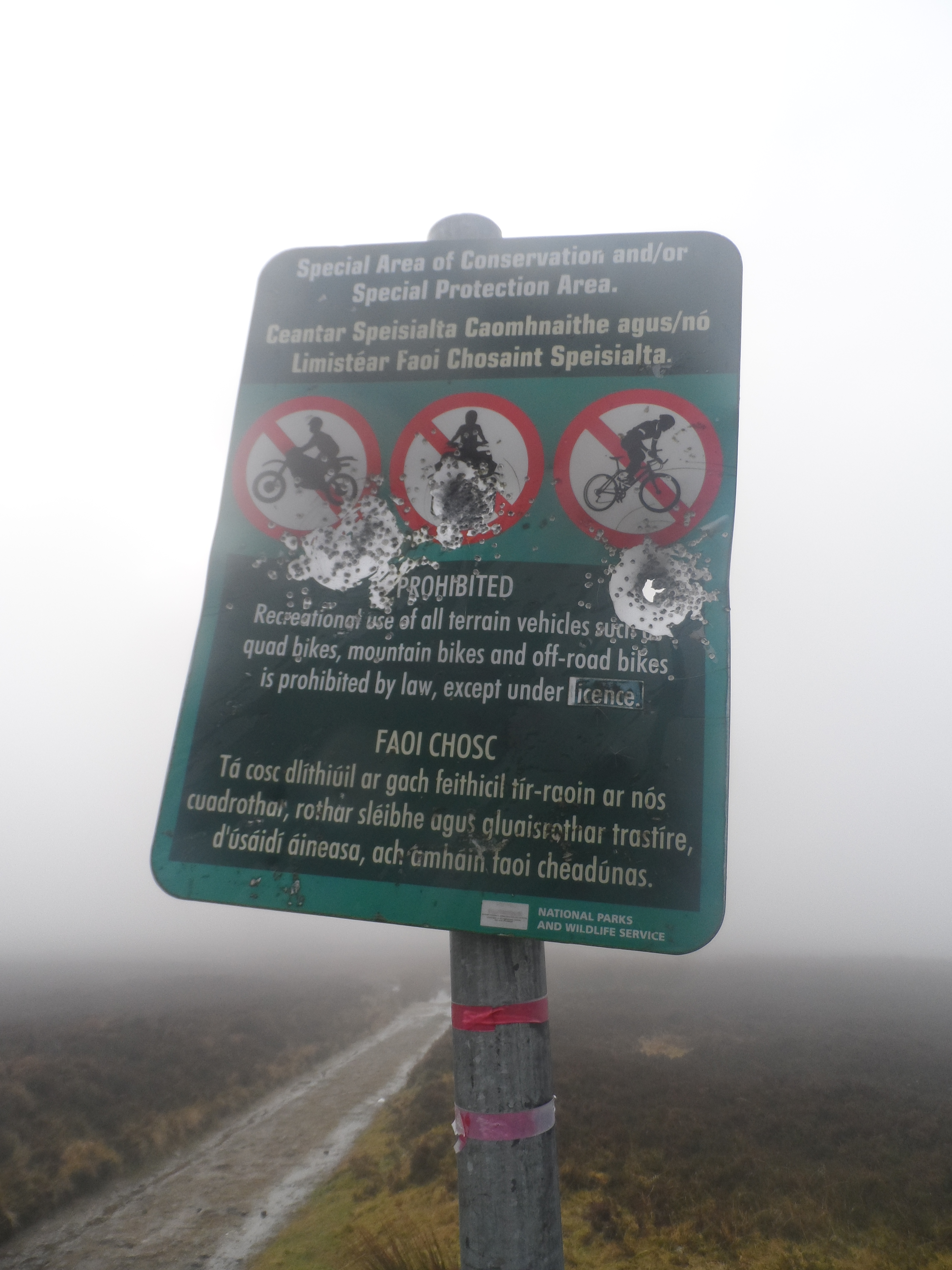 No biking sign, Wicklow